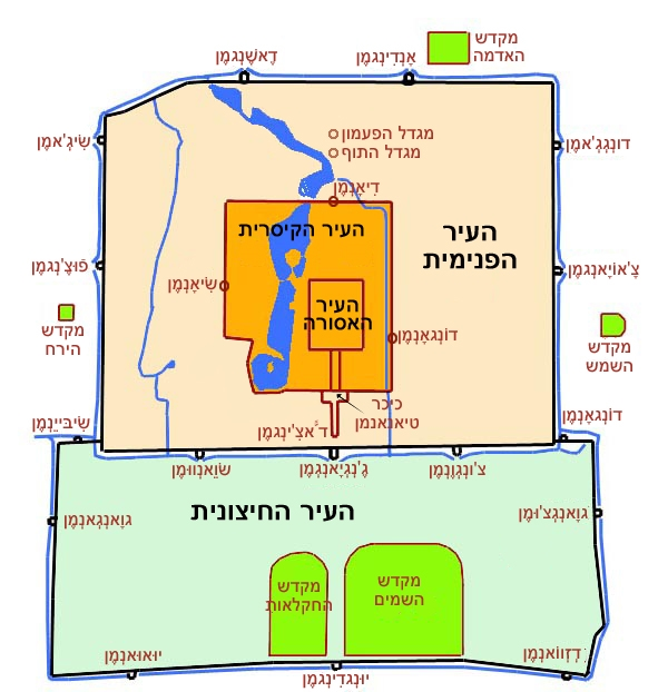 translation of File:皇城1.jpg